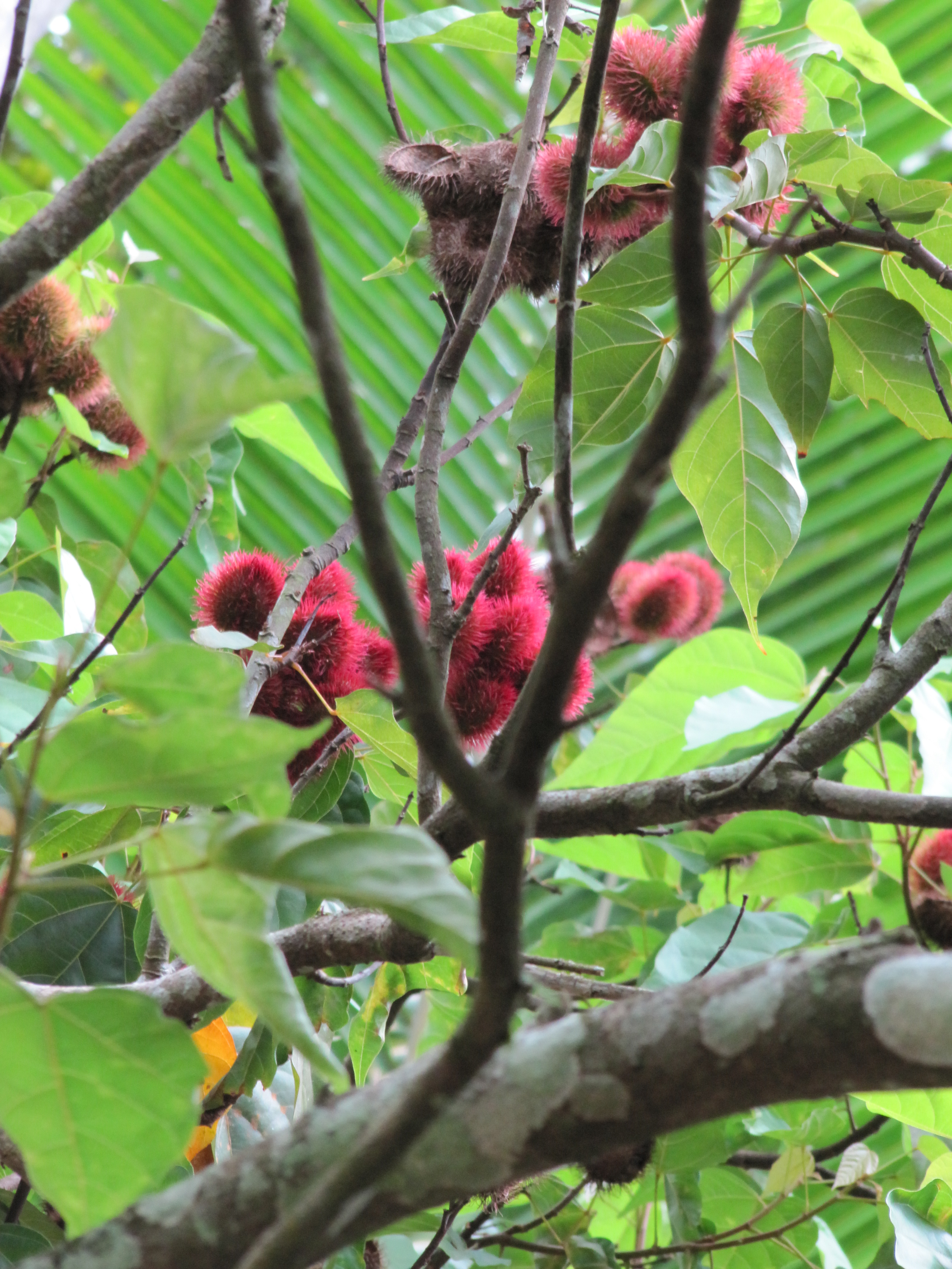 Bixa orellana at Spice tour on Zanzibar